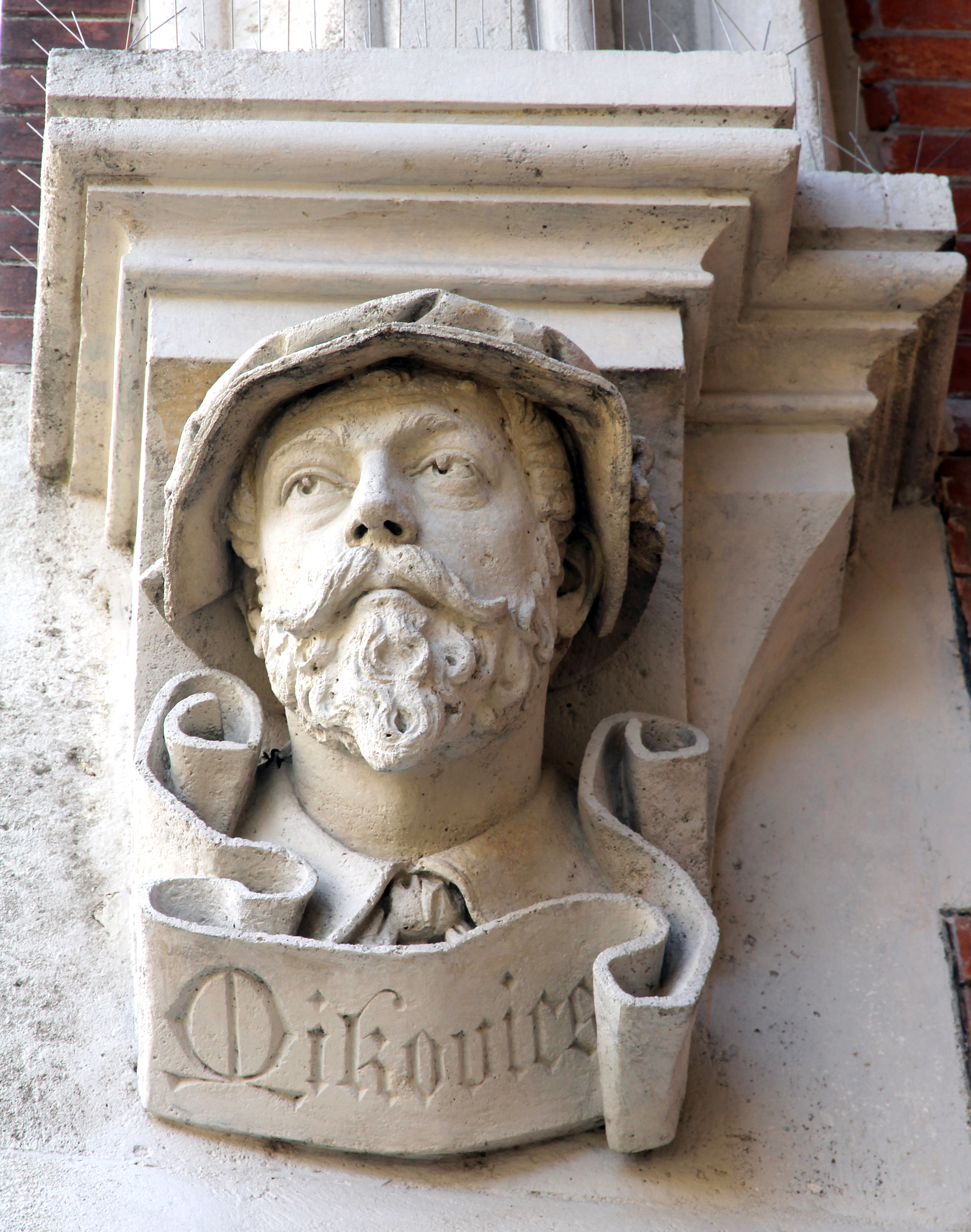 Graz, Herz Jesu Kirche, Portraitkopf 'Robert Mikovics‘ am Nordportal